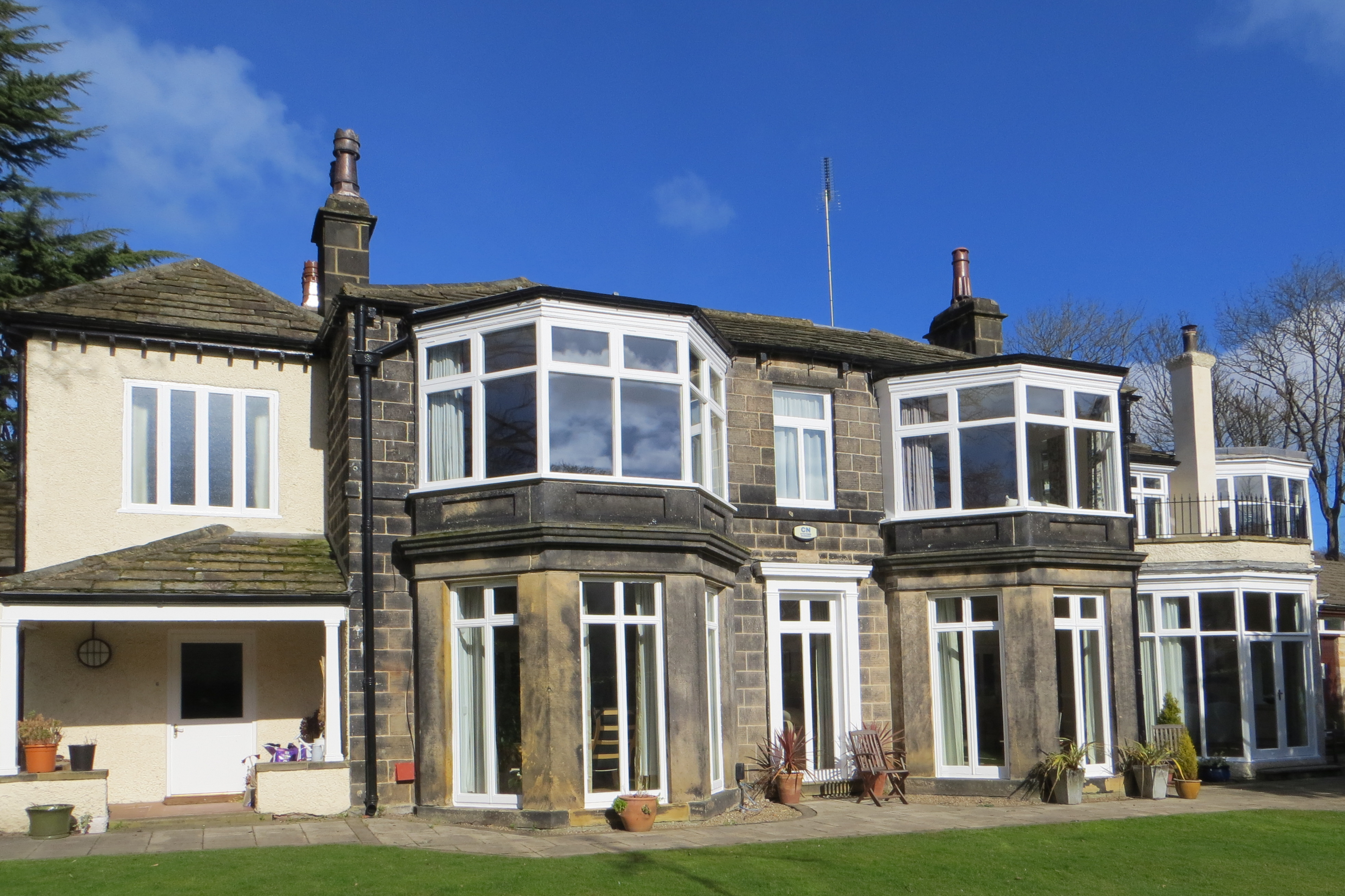 Hollin House, Weetwood Avenue, Leeds LS16 5NG. Bishop's house and office, Anglican Diocese of Leeds